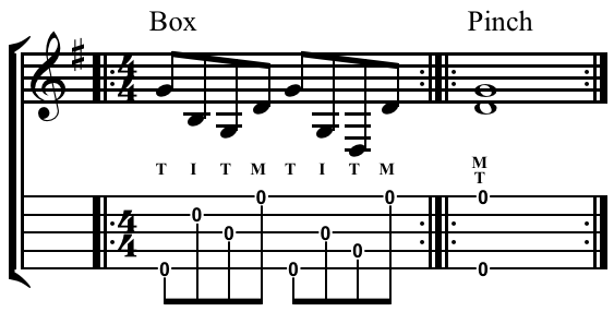 More, "commonly used," banjo rolls "box" ("square" or "alternating thumb") roll and pinch. Created by Hyacinth (talk) using Sibelius 5.